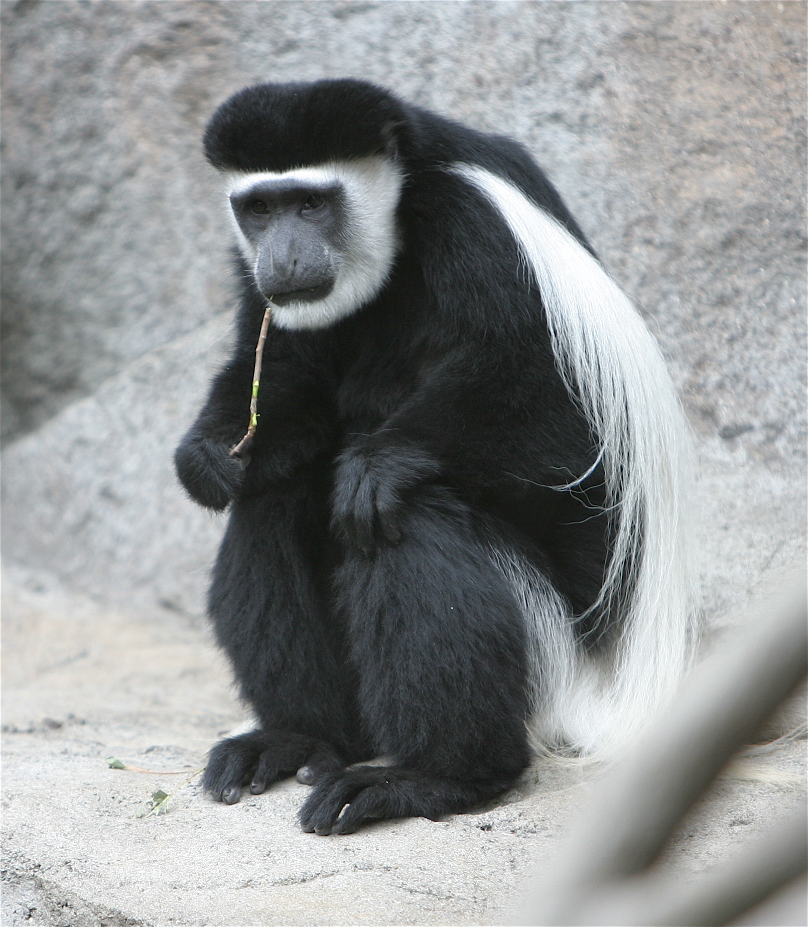 Colobus Monkey at the Oregon Zoo